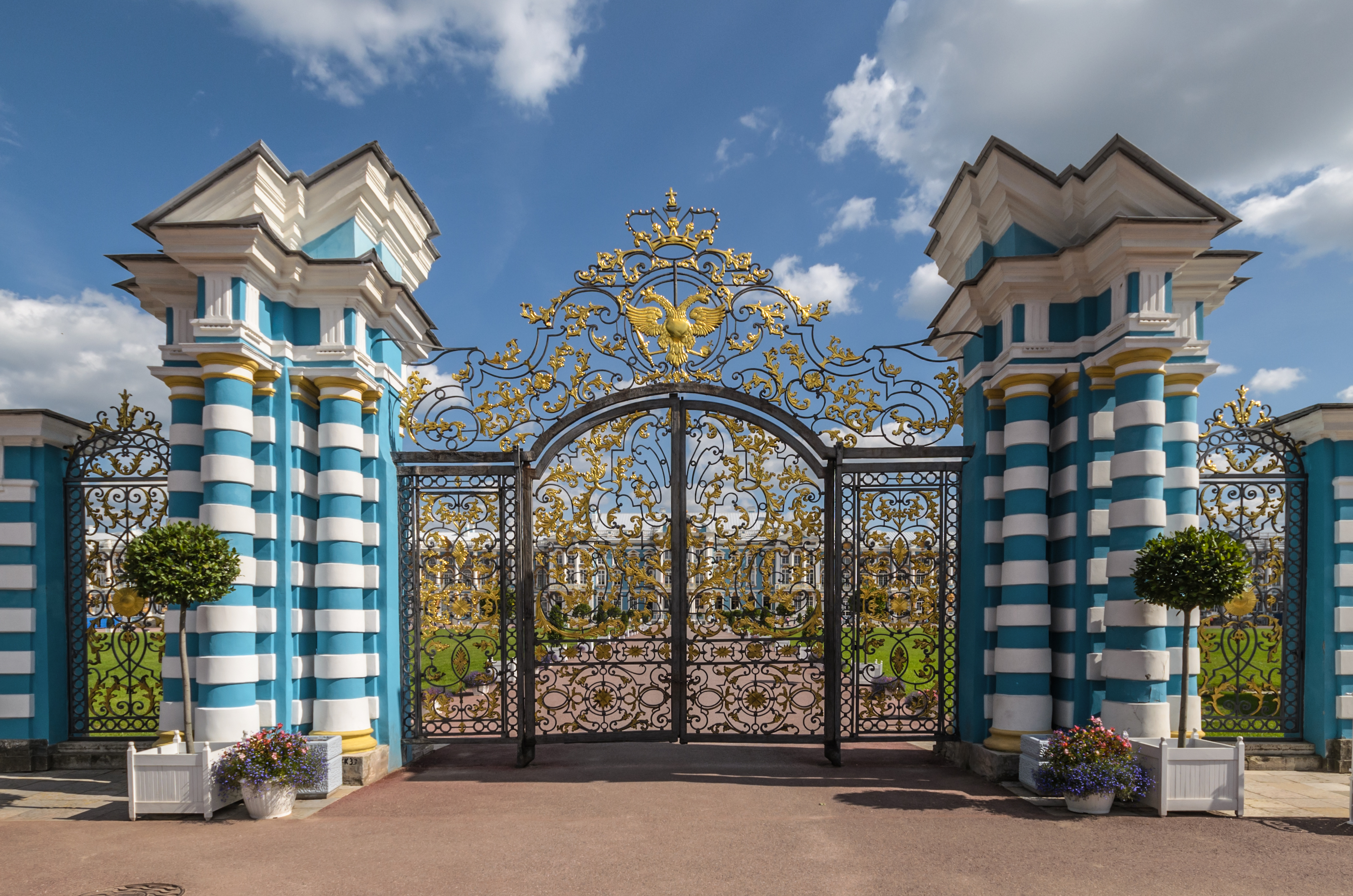 Golden Gates of Catherine Palace, Tsarskoe Selo. Saint Petersburg.